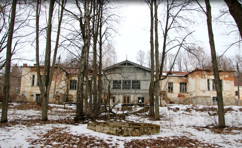 This is a mansion of russian gentry family